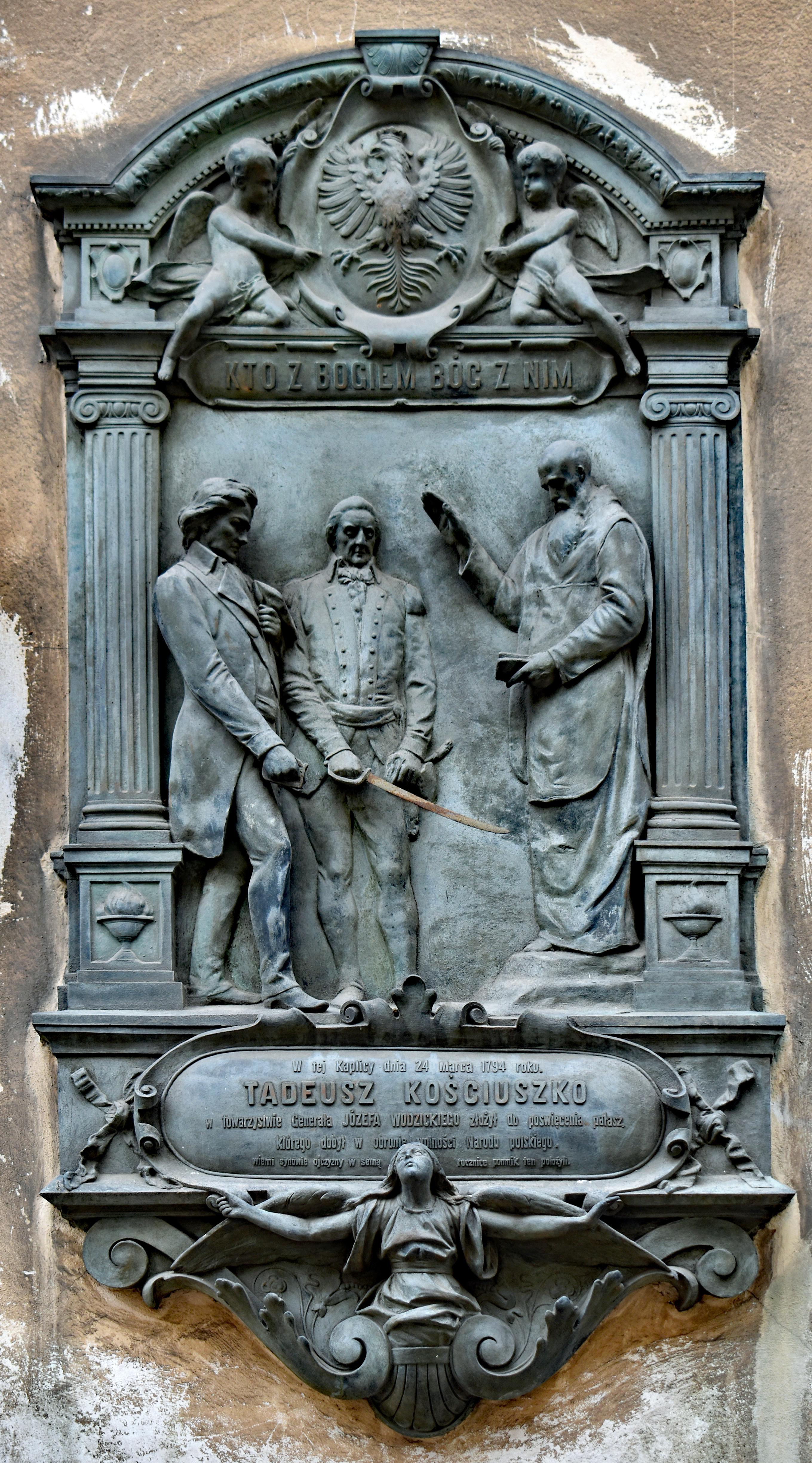 T. Kosciuszko memorial plaque (A. Daun, 1896), Annunciation of the Blessed Virgin Mary Church, 11 Loretanska street, Piasek, Krakow, Poland